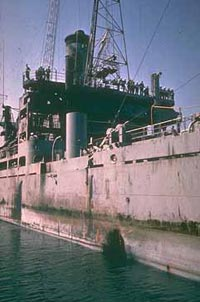 USS Liberty (AGTR-5) at La Valletta, Malta, after arriving for repair of damages received when she was attacked by Israeli forces off the Sinai Peninsula on 8 June 1967. She arrived at Malta on 14 June. Note torpedo hole in her hull side, forward of the superstructure.